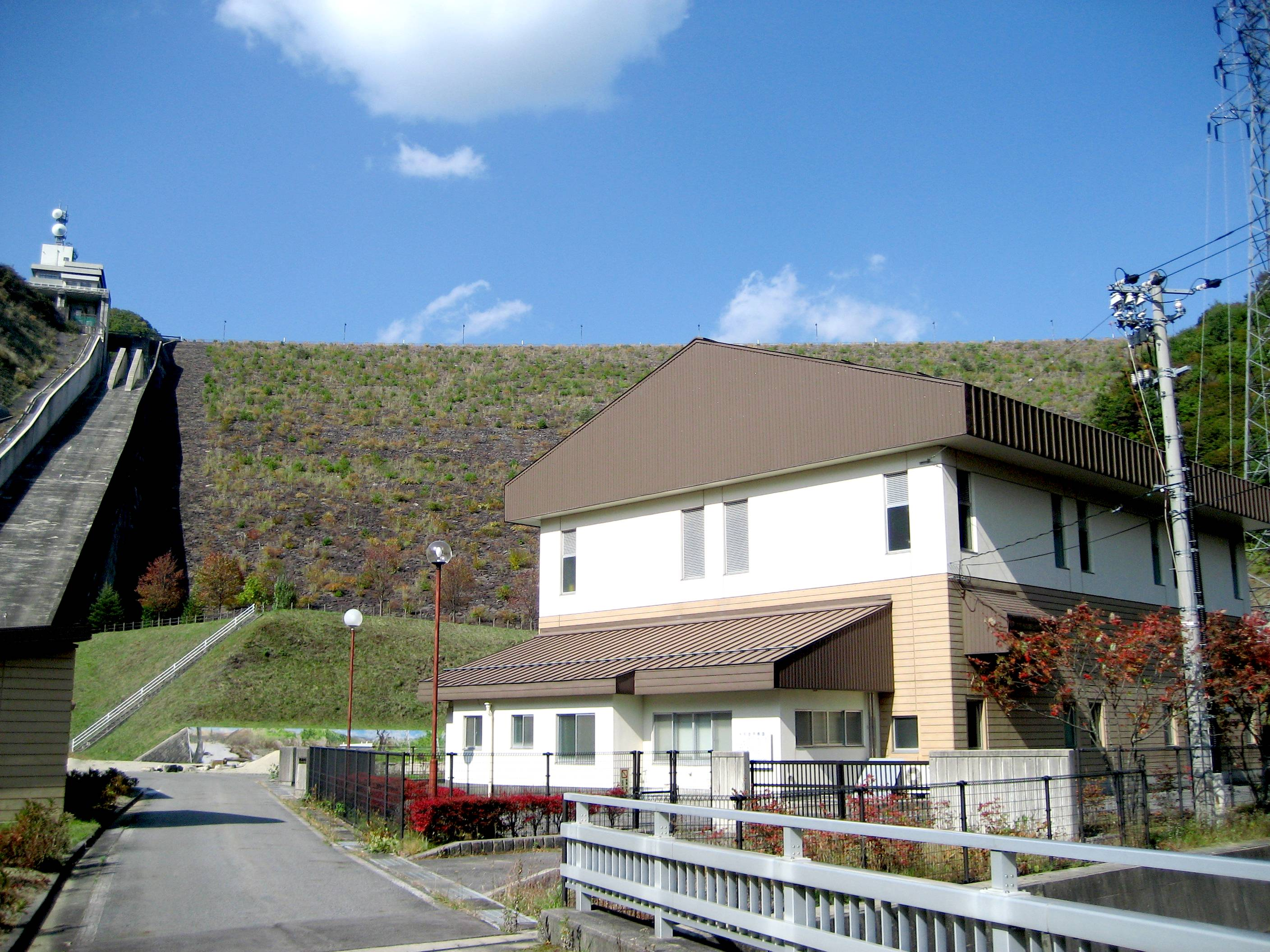 Misogawa Dam (味噌川ダム) and Okugiso power station (奥木曽発電所) in Kiso village, Nagano prefecture, Japan.